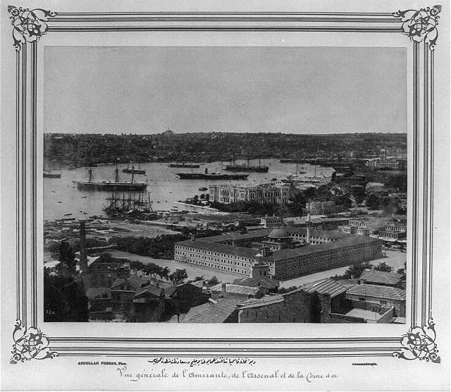 Kasımpaşa & Haliç [between 1880 and 1893]